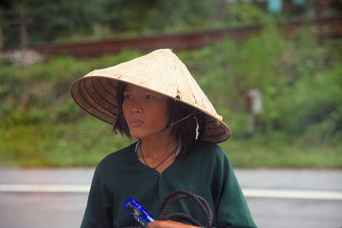 Vietnamese woman near Ha Long